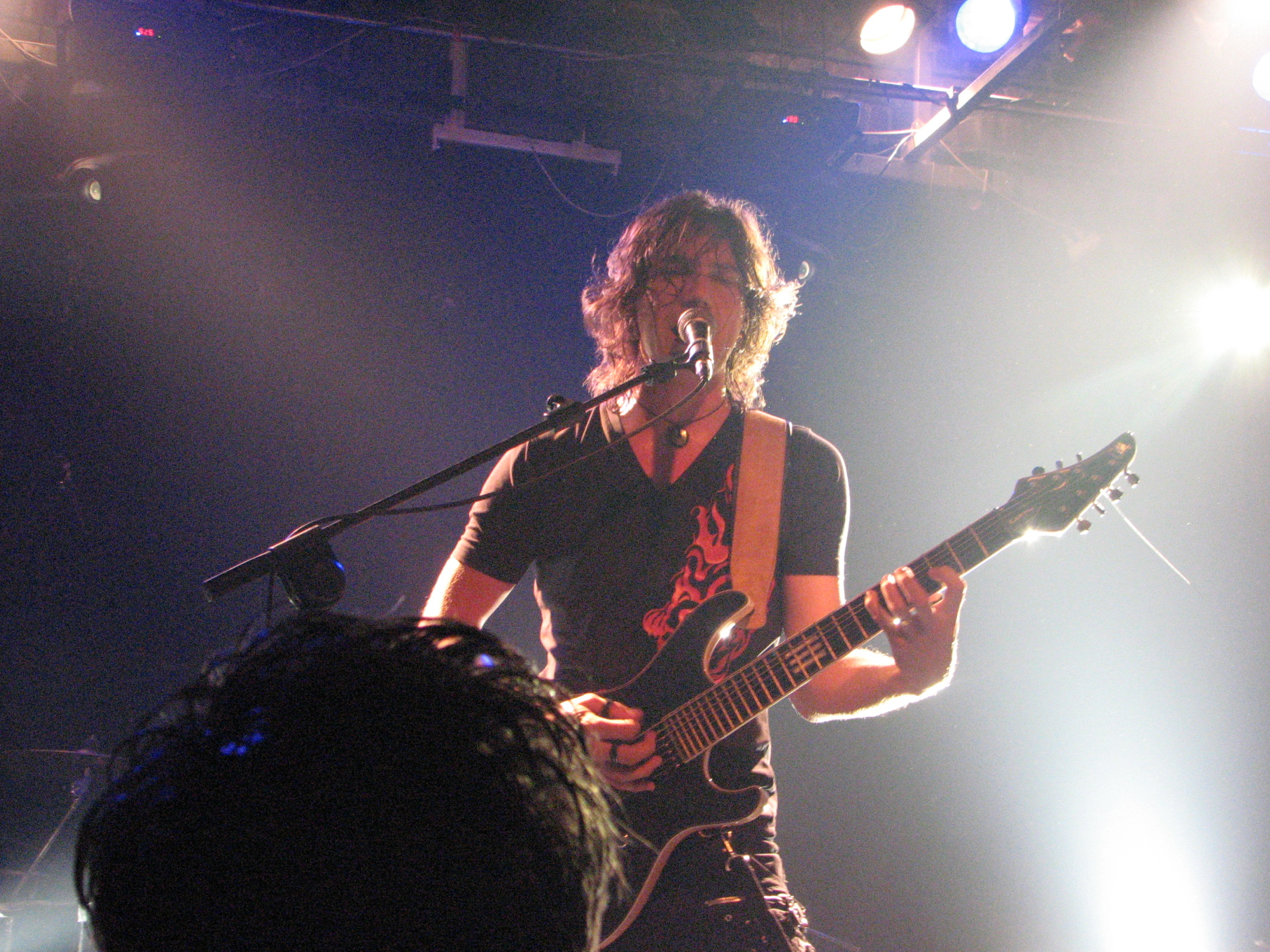 Daniel Gildenlöw from a Pain of Salvation concert in Thessaloniki on 31-March-2007